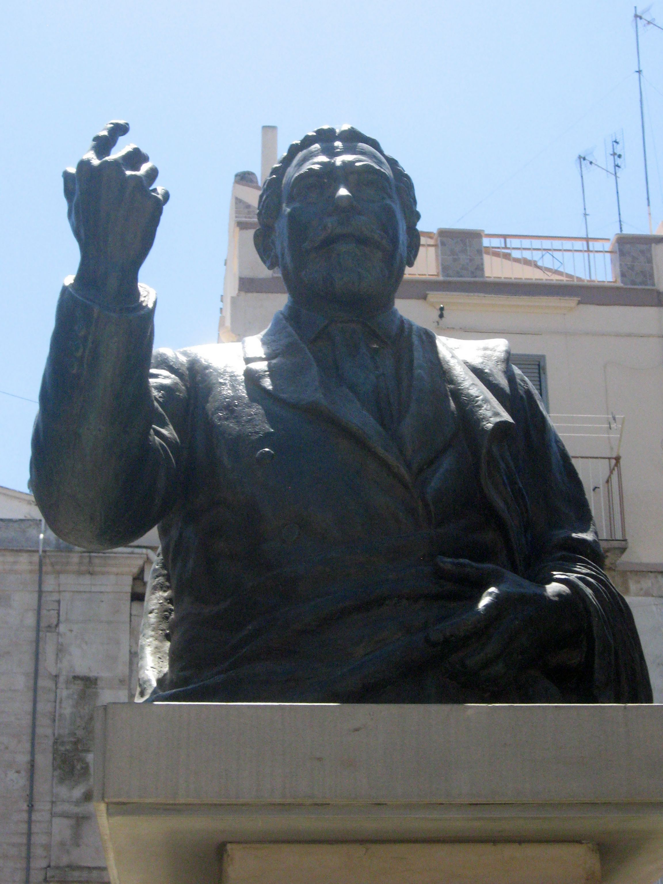 Francesco Rubini